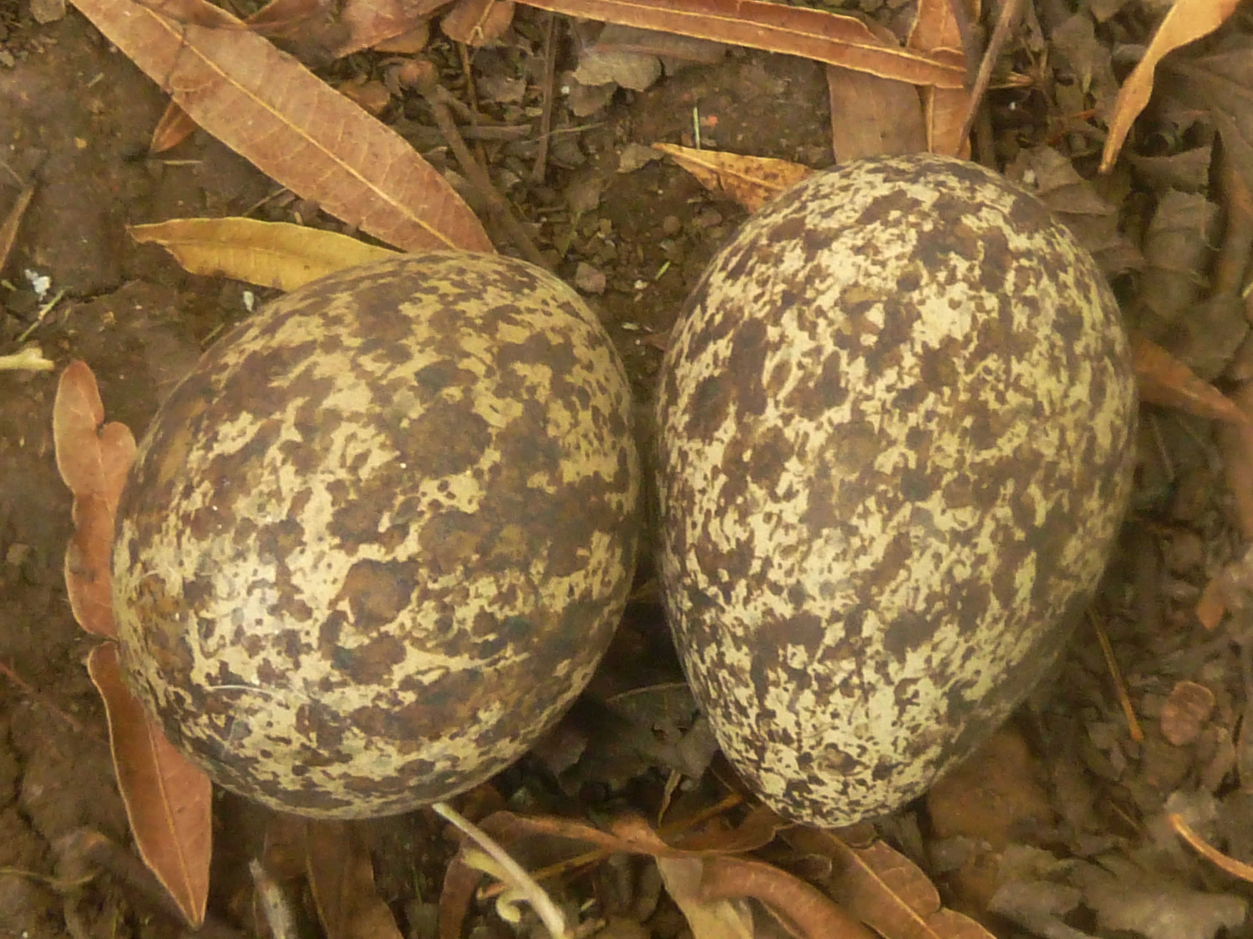 Clutch of Spotted thick-knees in suburban Pretoria, South Africa